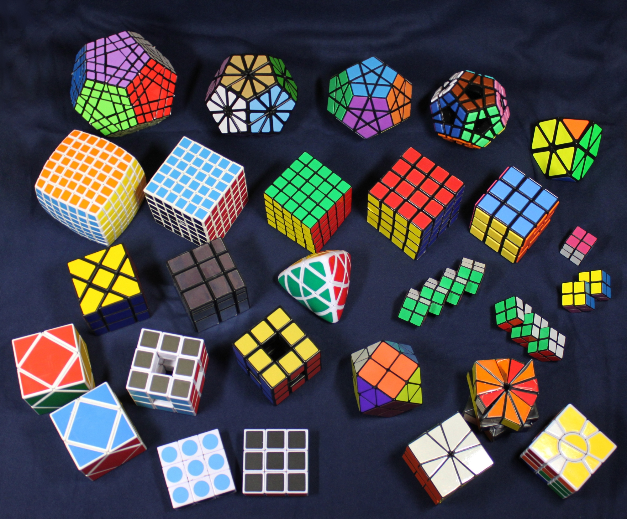 My whole collection so far. See notes for details.